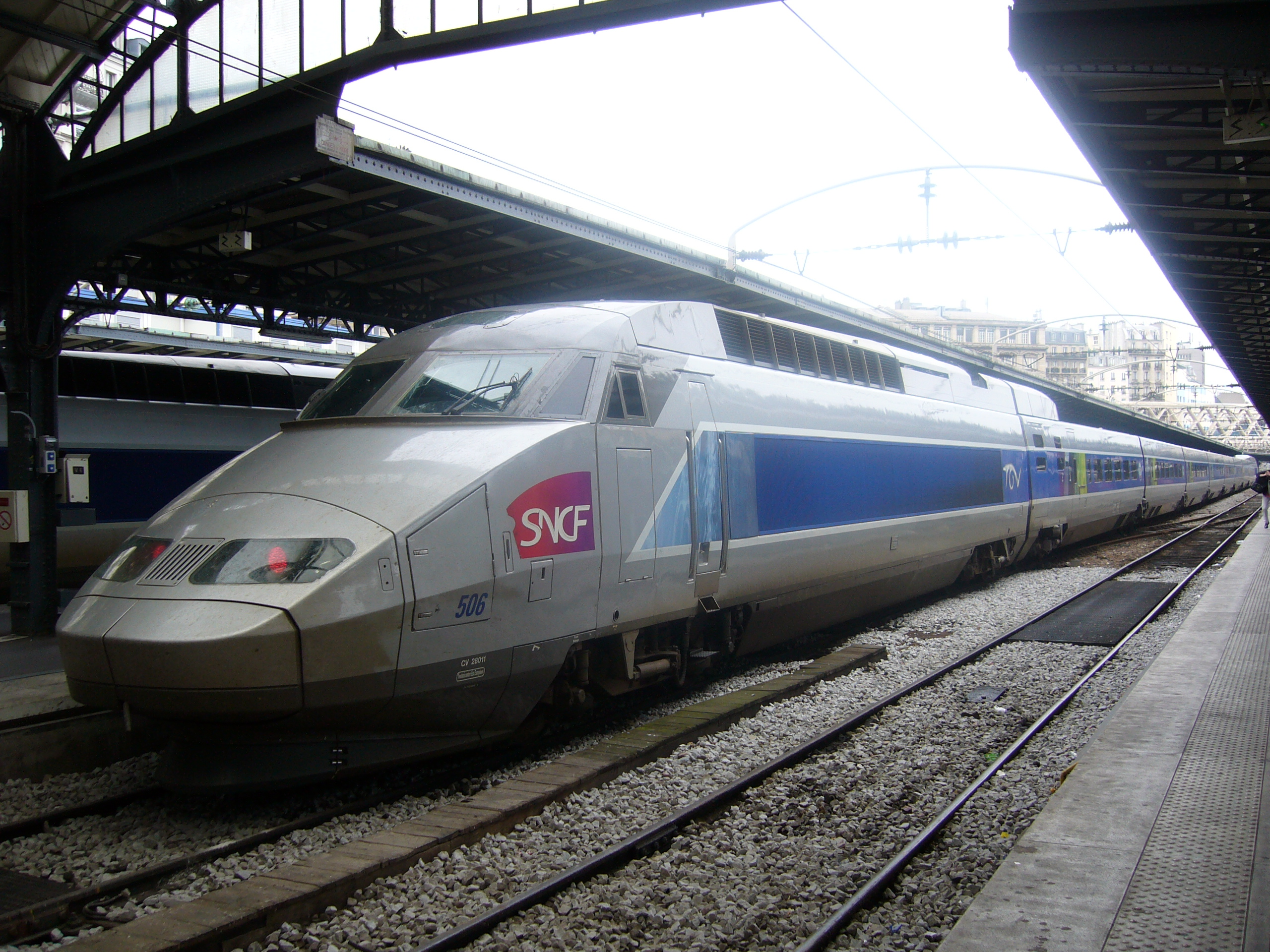 TGV Est in the Paris Est train station